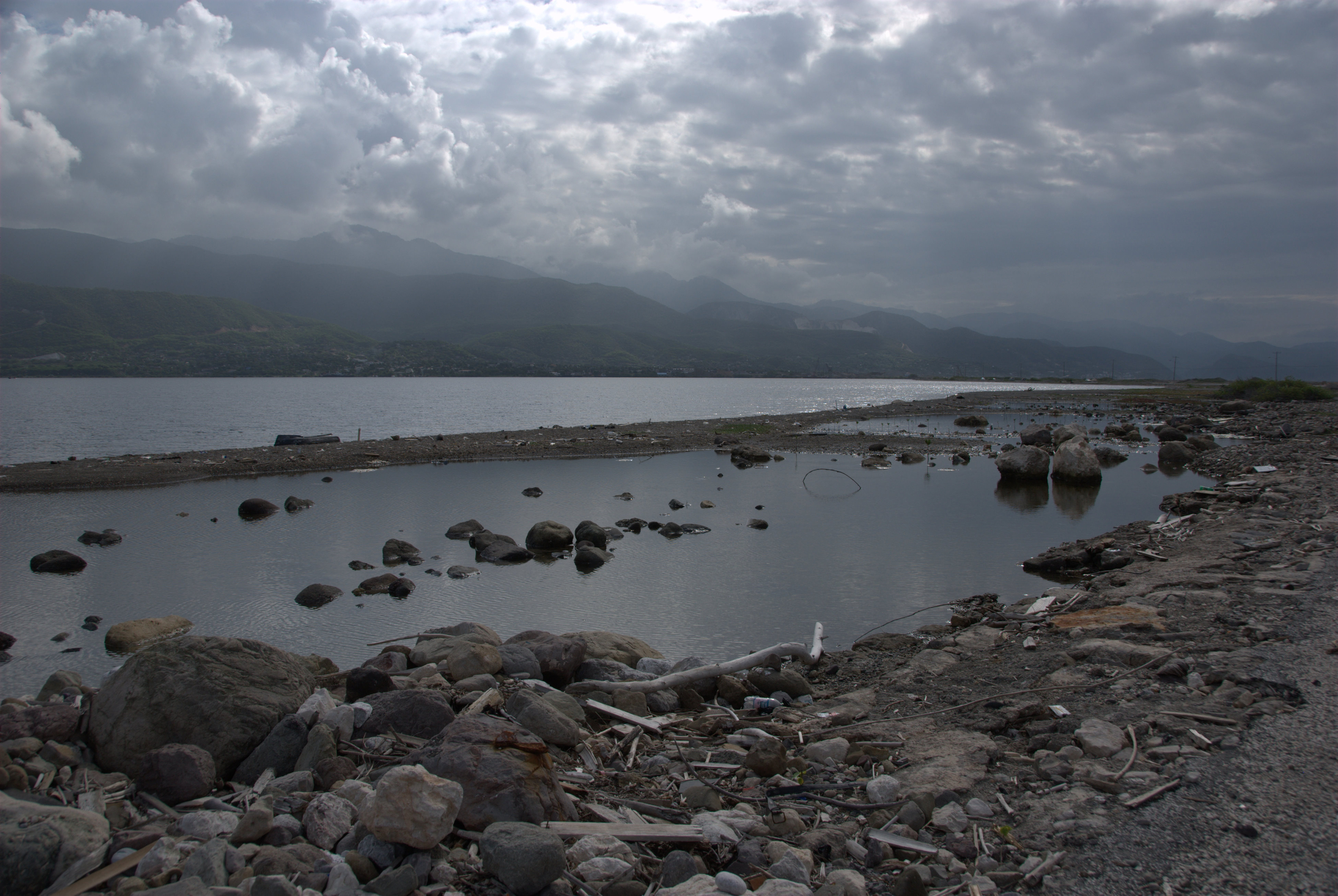 A picture of the Harbour View at the Palisadoes in Kingston, Jamaica, taken in May 2009.